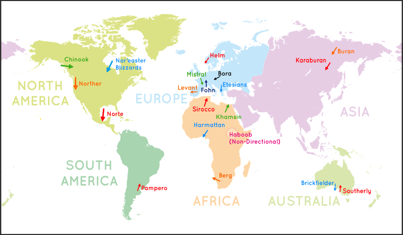 Graphic representation of local winds on world map